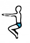 b_p3